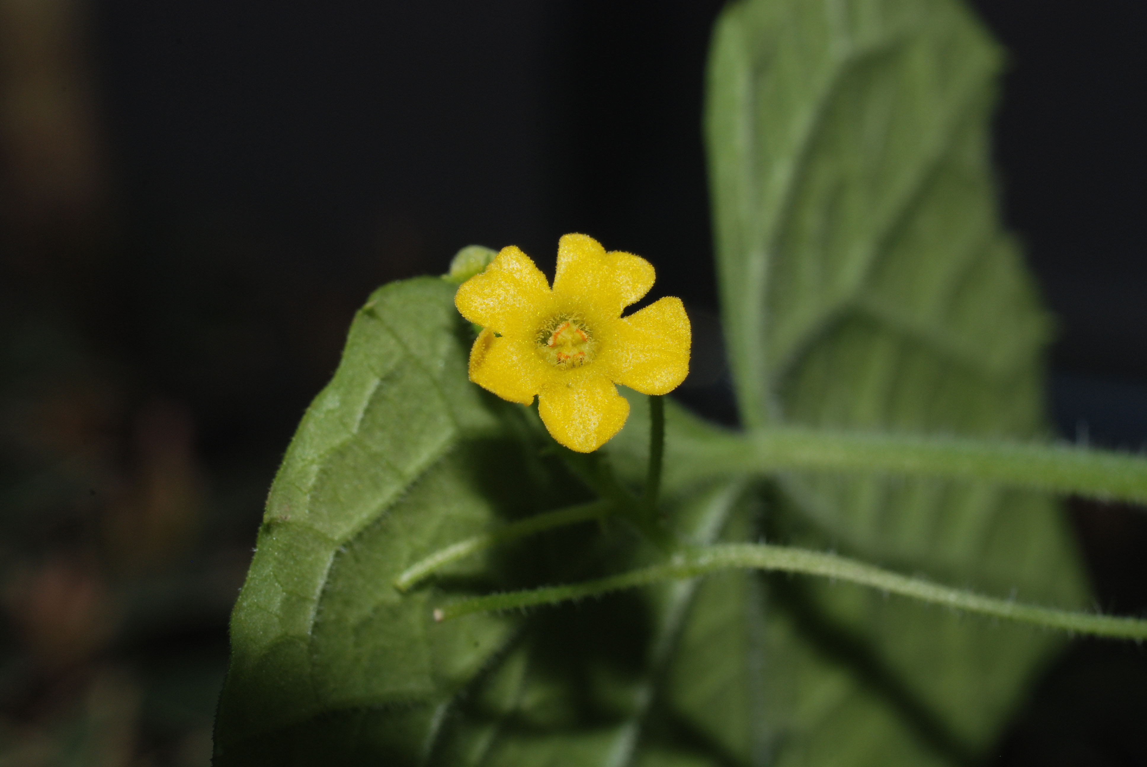 Florescence of Melothria scabra